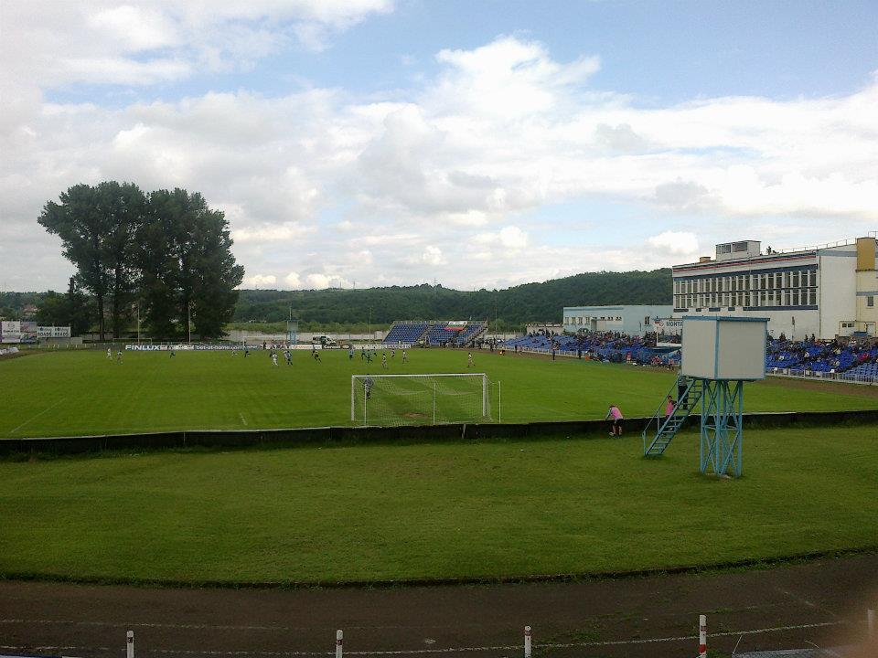 Stadium Ogosta in Template:Montana